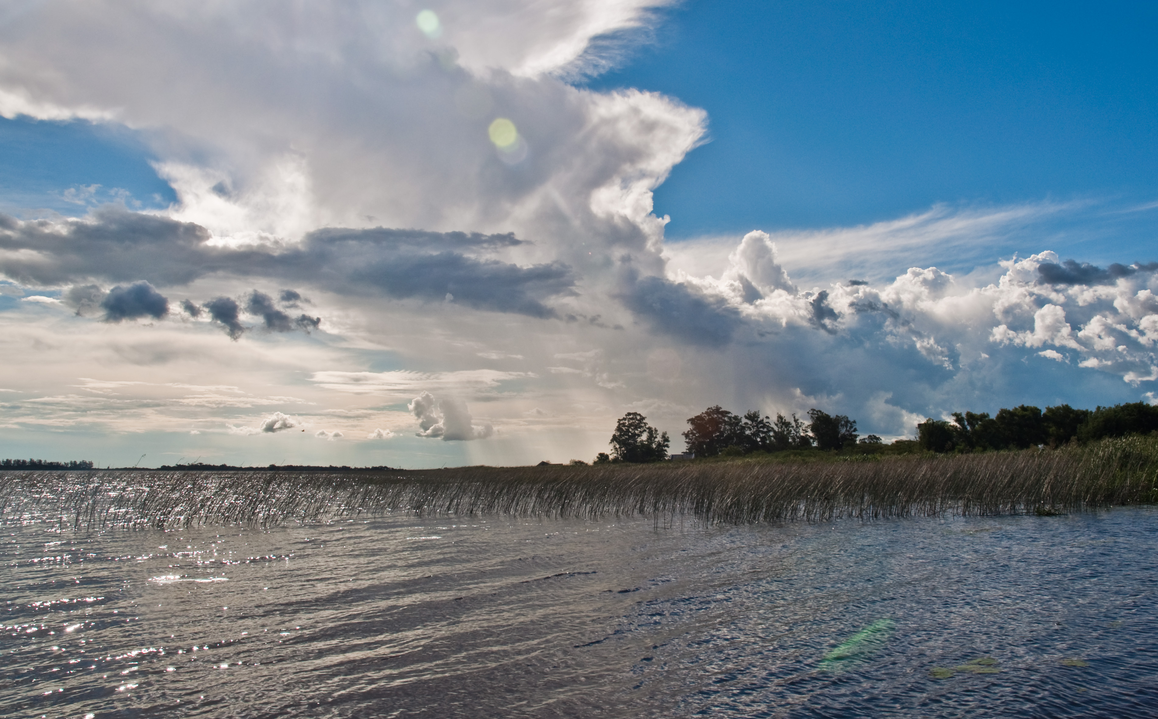 The bridge at Colonia de Carlos Pellegrini, Corrientes, Argentina, 2nd. Jan. 2011